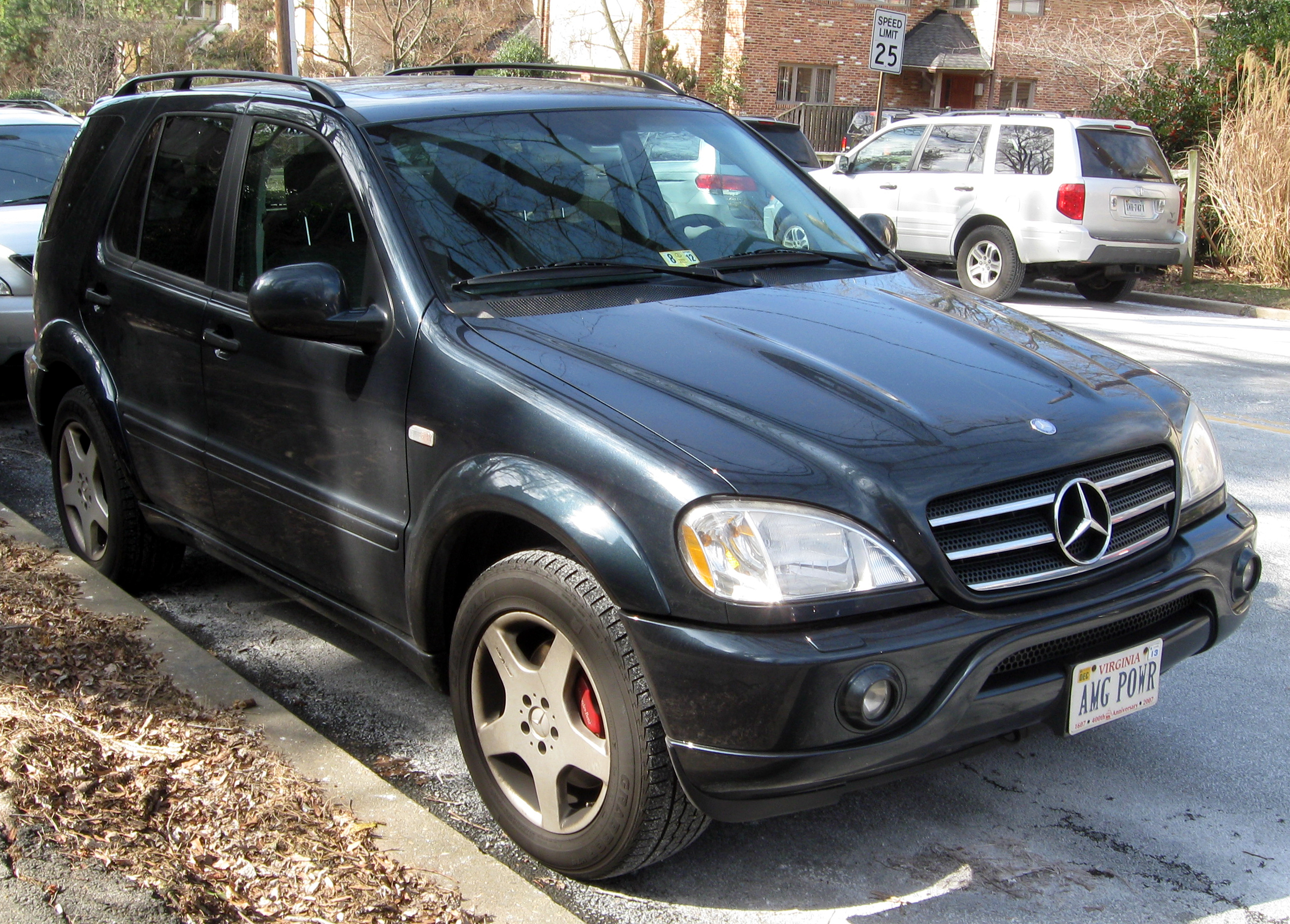 Mercedes-Benz ML55 AMG photographed in Washington, D.C., USA.